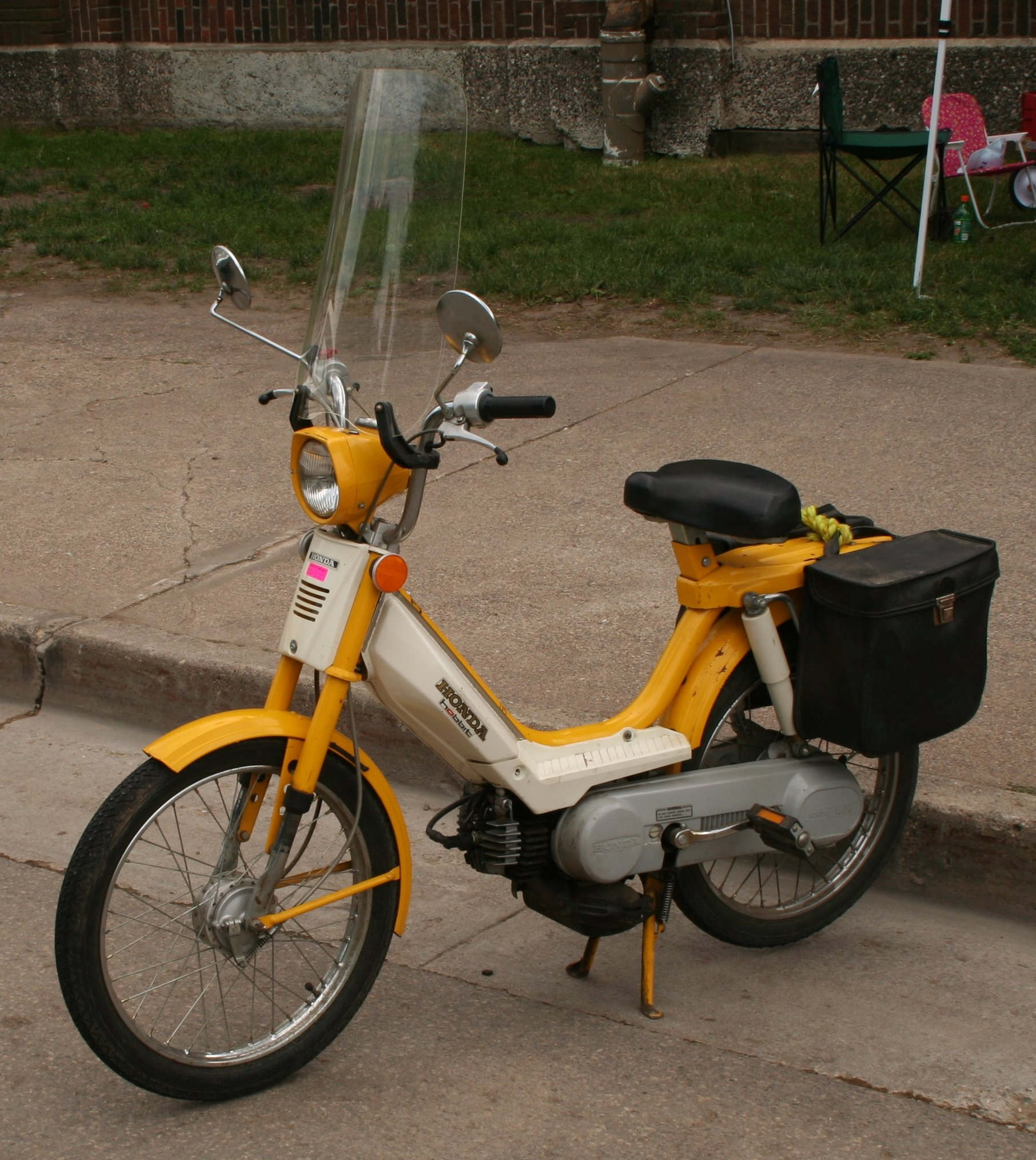 I don't know how they let this in here. A reminder, however, that everyone has to start somewhere. I think this old Honda was the first "motorcycle" that the company produced. It probably got 90 or 100 miles per gallon, but only went 25 or 30 mph.